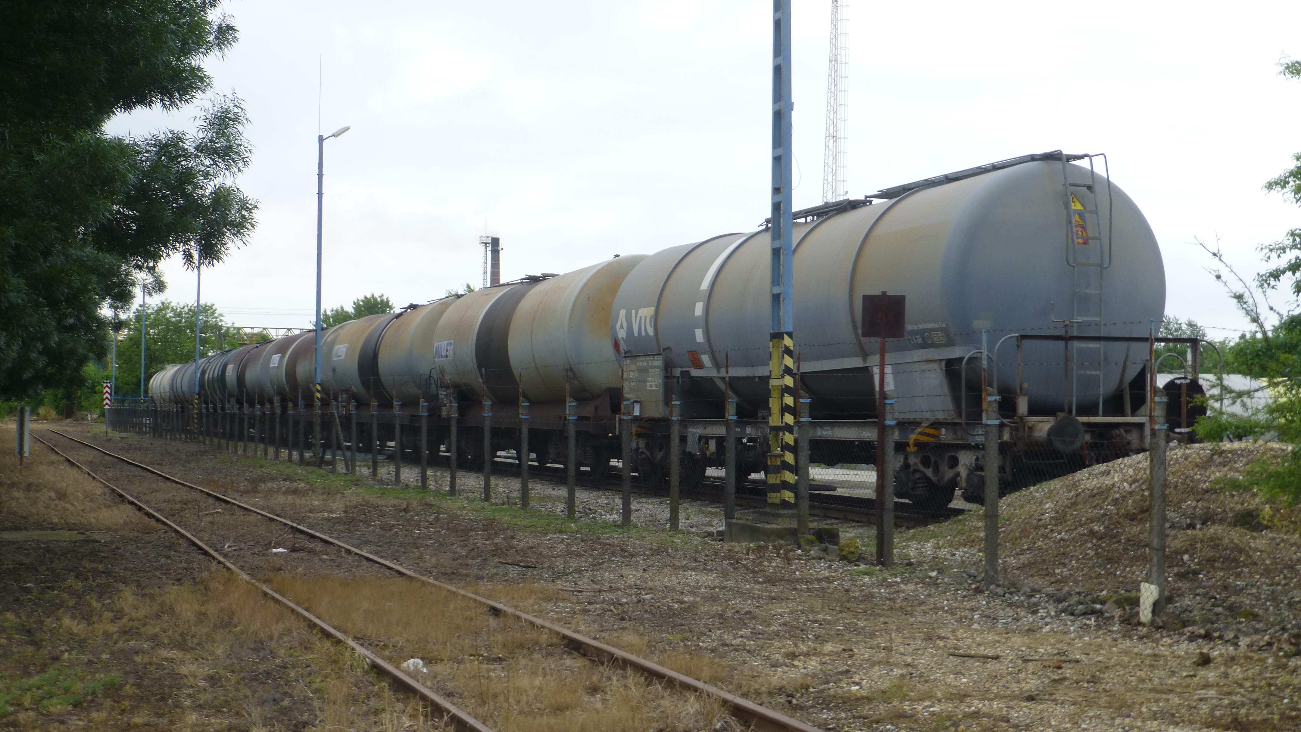 By 2015 the upper section of the Industrial branch line (Szállásvágány, Lodgement track) was in operation again.